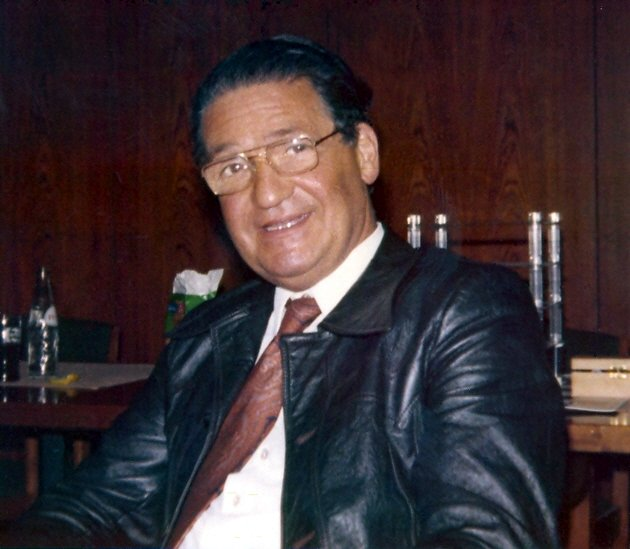 Gerhard Wolfgang Jensch chess composer and organizer (27.01.1920 - 26.10.1990)